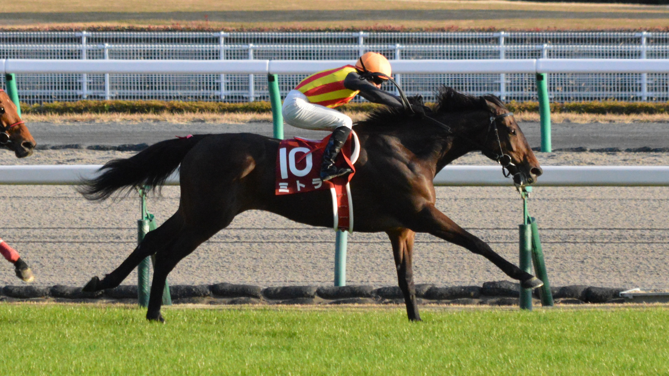 Japanese race horse Mitra at Chukyo racecourse. Chukyo (JPN) 5 Dec 2015 Kinko Sho (Grade 2) (3yo+) (Turf) (3yo+) 1m2f Firm RankHorse NameOddsAgeWgtTrainerJockey1stMitra (JPN)8/1G78-11Kiyoshi HagiwaraYuichi Shibayama2ndDecipher (JPN)27/10H69-0Futoshi KojimaHirofumi Shii3rdSatono Noblesse (JPN)66/10H58-11Yasutoshi IkeeRyuji Wada4th-18th/omission